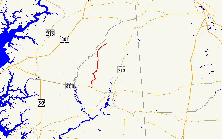 Map of Maryland Route 312